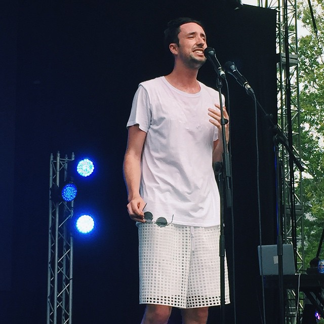 Image of How to Dress Well AKA Tom Krell performing in 2015 at a live show I went to.